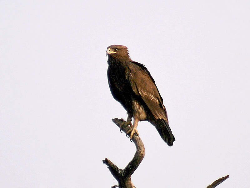 Greater Spotted Eagle (Aquila clanga) at Bharatpur, Rajasthan, India.